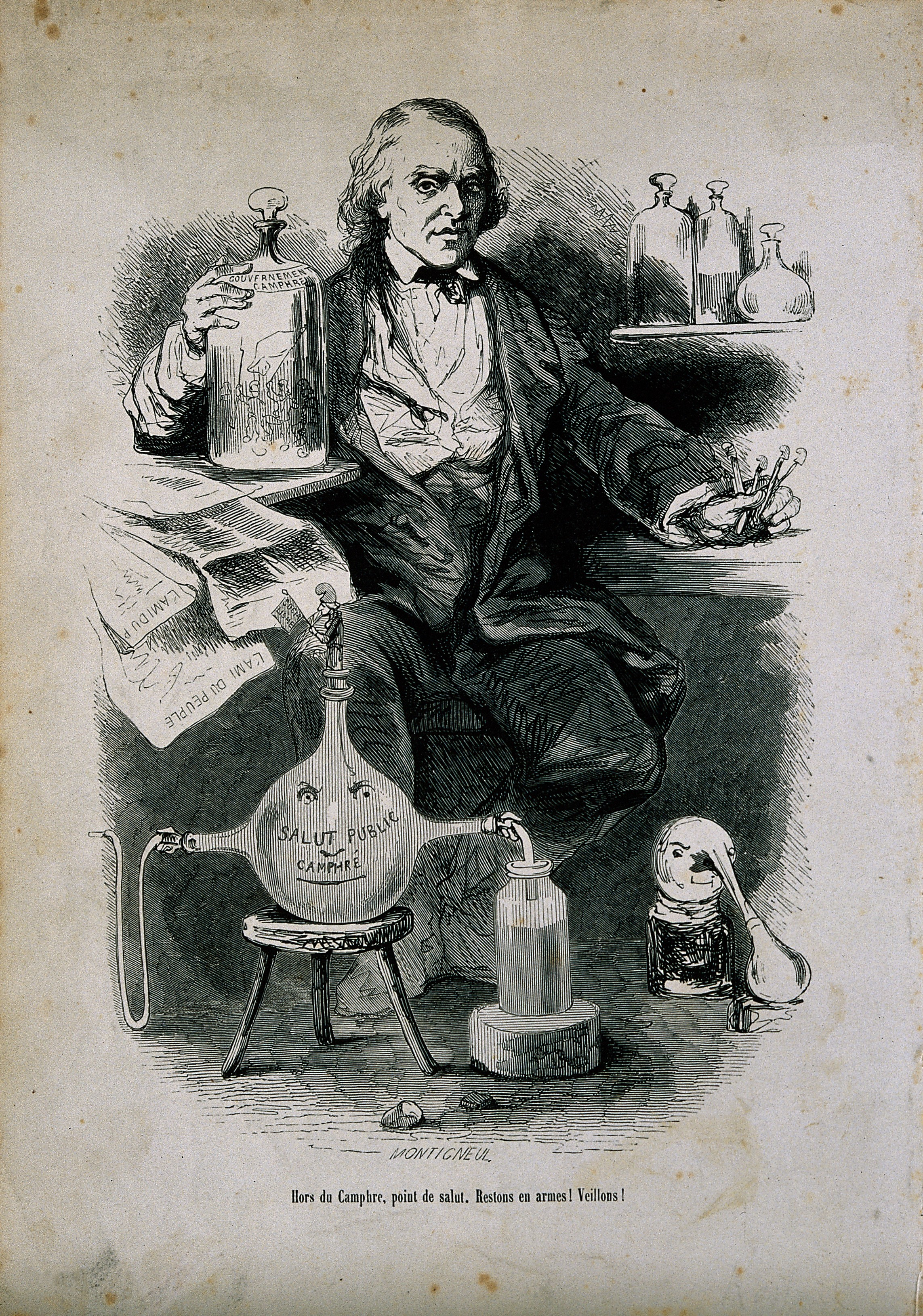 François Vincent Raspail. Wood engraving by Montigneul. Iconographic Collections Keywords: portrait prints; Francois-Vincent Raspail; wood engravings